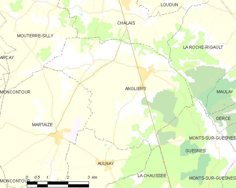 Map of French municipality Angliers